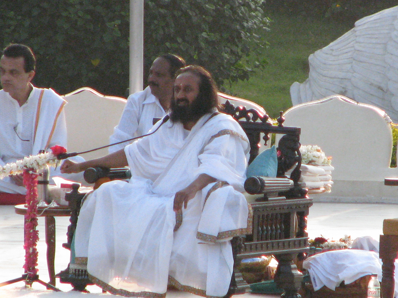 Ravi Shankar